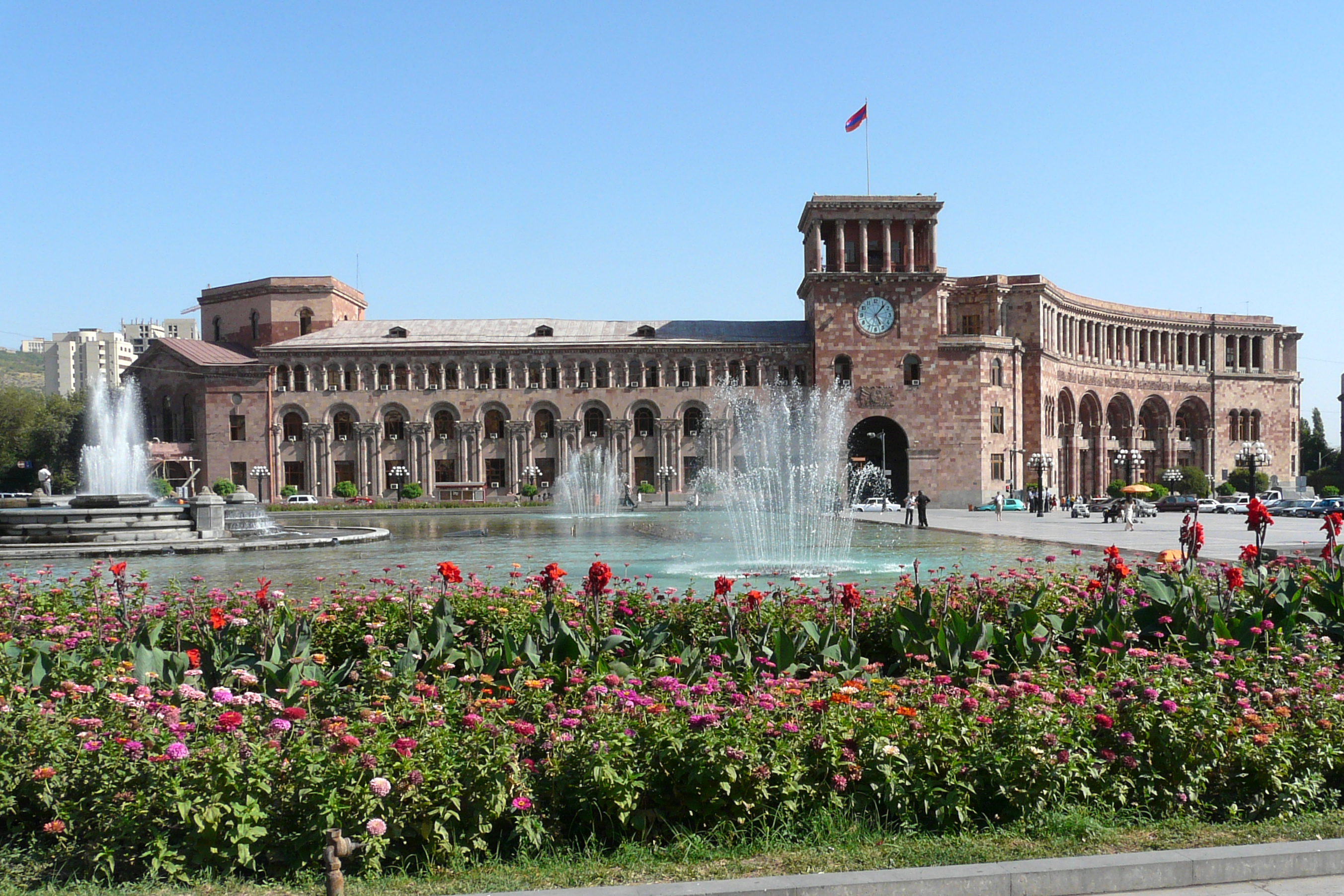 Armenian Government houses